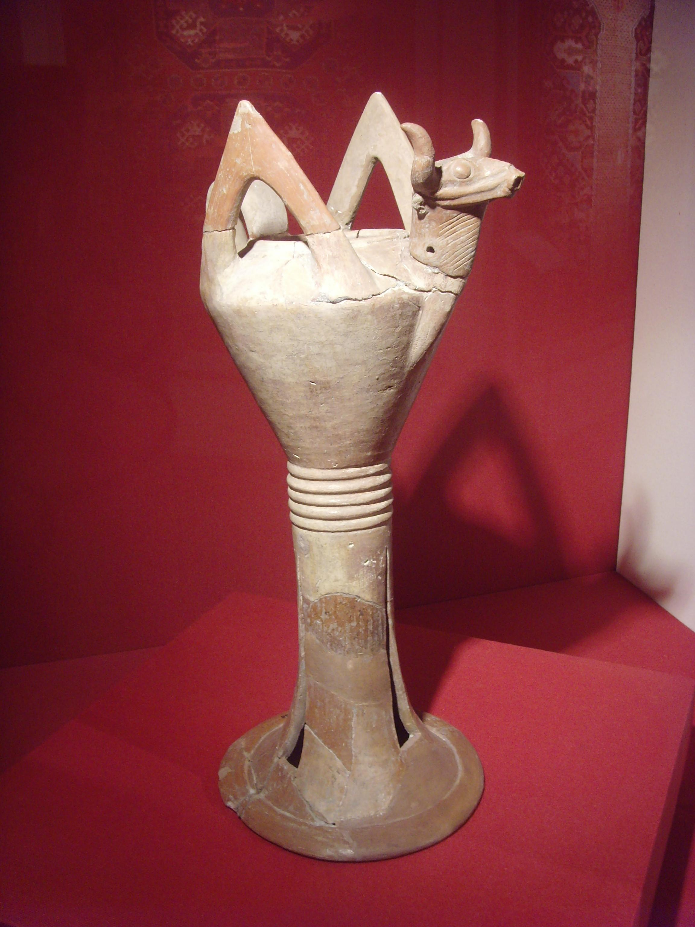 Hittite fruit cup - Baked clay - Kültepe (Kaneš) - Hittite period (first quarter of 2nd millennium B.C.) - From the collection of The Museum of Anatolian Civilizations - photographed at The Turkish and Islamic Arts Museum during a temporary exhibition